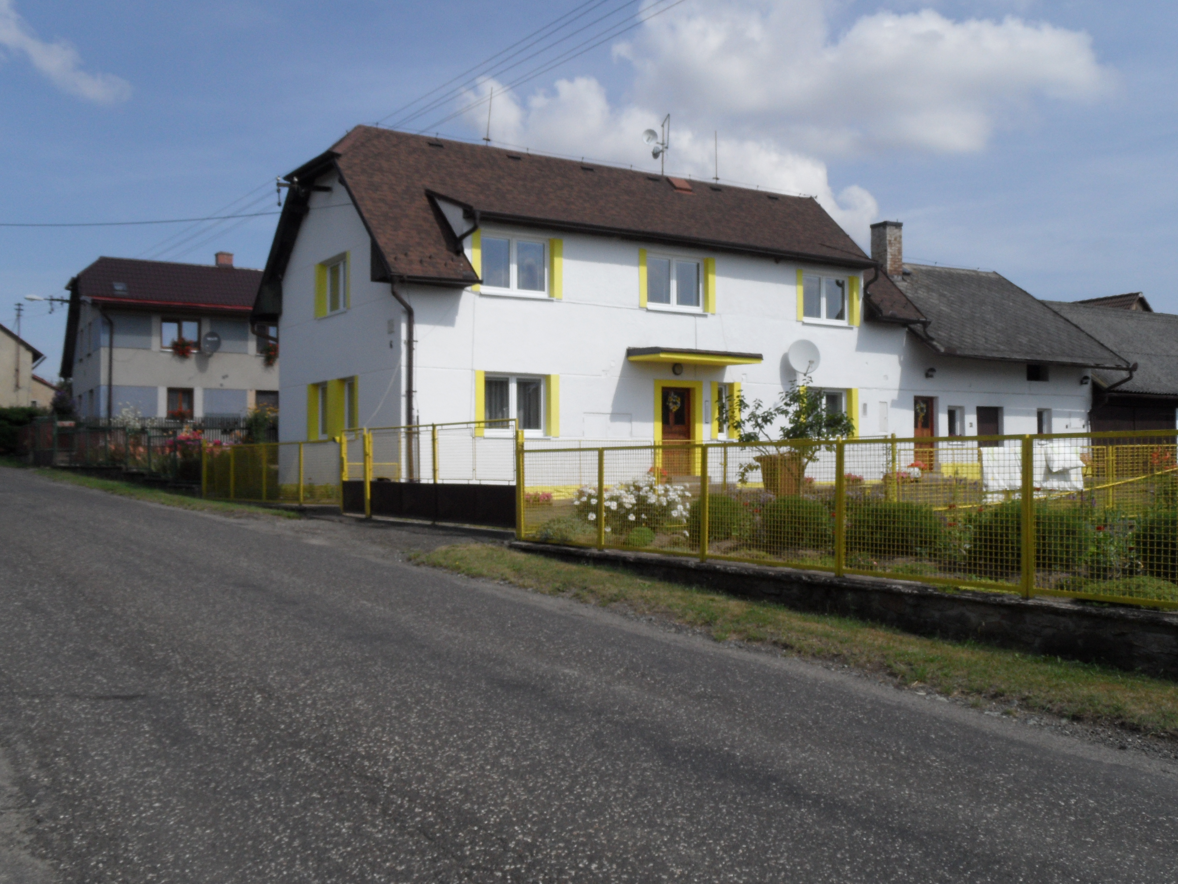 Kateřinky (Zbraslavice) B. Houses along the Main Road, Kutná Hora District, the Czech Republic.